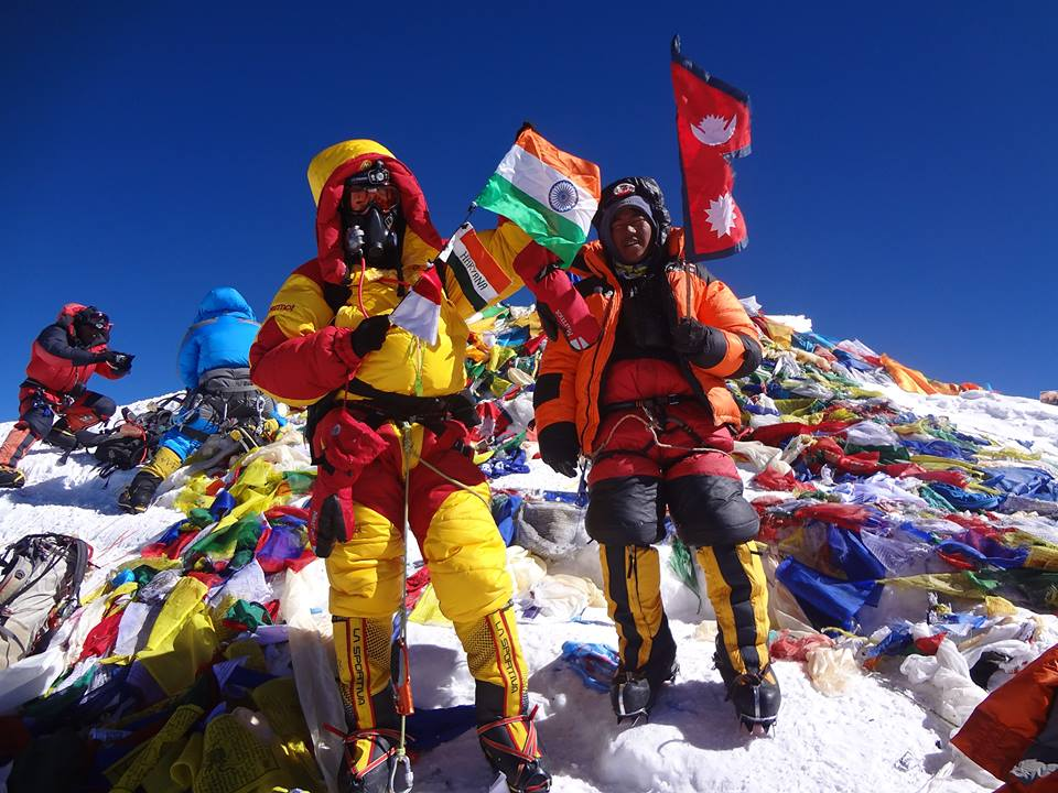 shubham kaushik on top of the world Mt. Everest 21st may along with his climbing sherpa